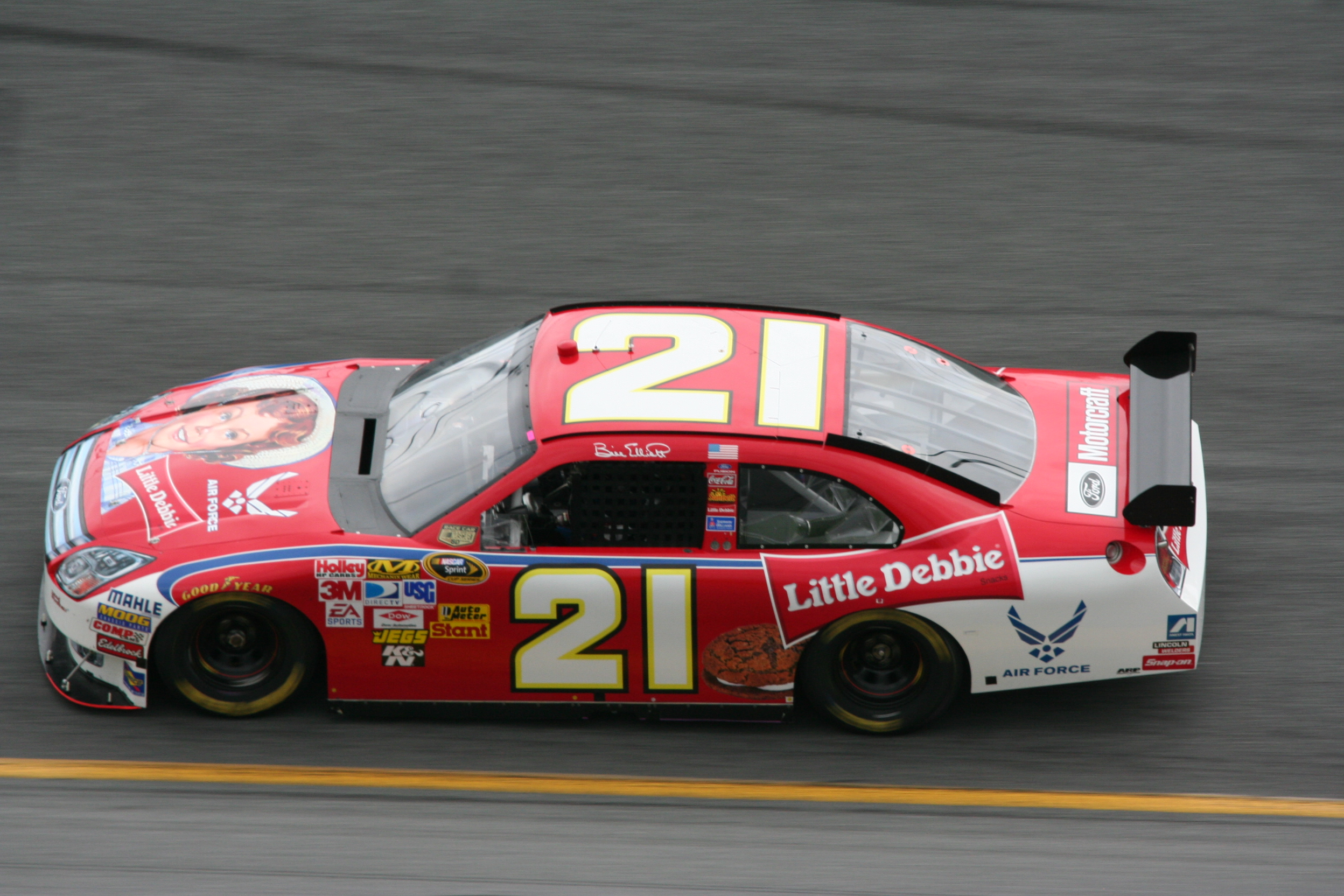 Shot by "The Daredevil" at Daytona during Speedweeks 2008Bill ElliotLittle Debbie Ford Fusion